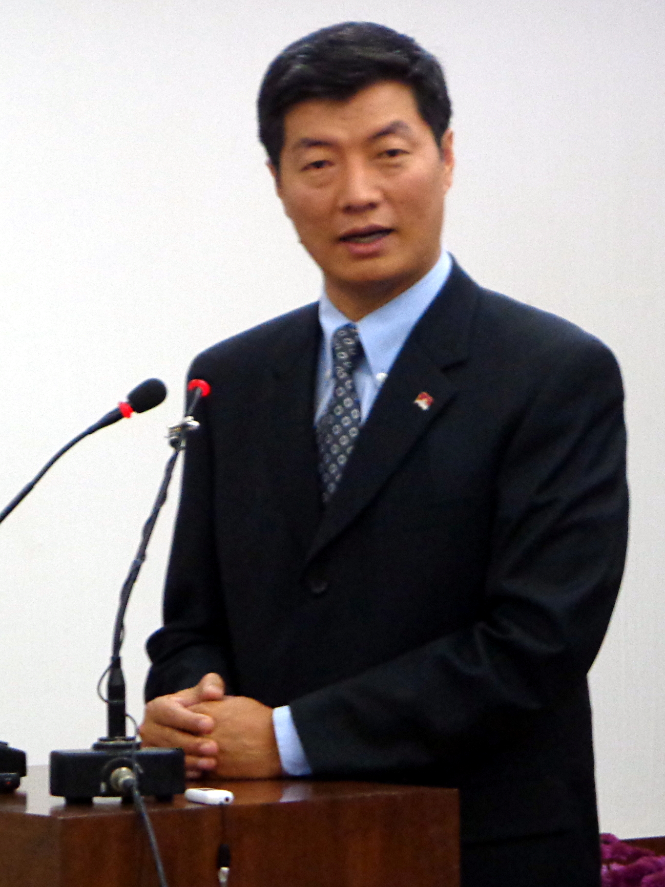 Lobsang Sangay 洛桑·桑盖 in Jamia Millia Islamia, New Delhi on 30th November, 2012 delivering 6th Dr. K R Narayanan Memorial Lecture